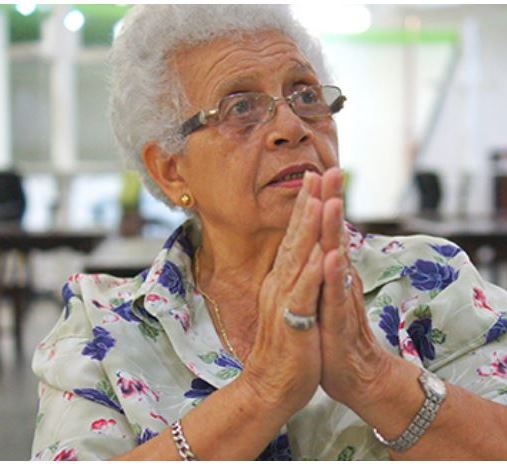 Gladys Tormes González, Archivo Histórico de Ponce, Ponce, PR, en 2015 (31A)